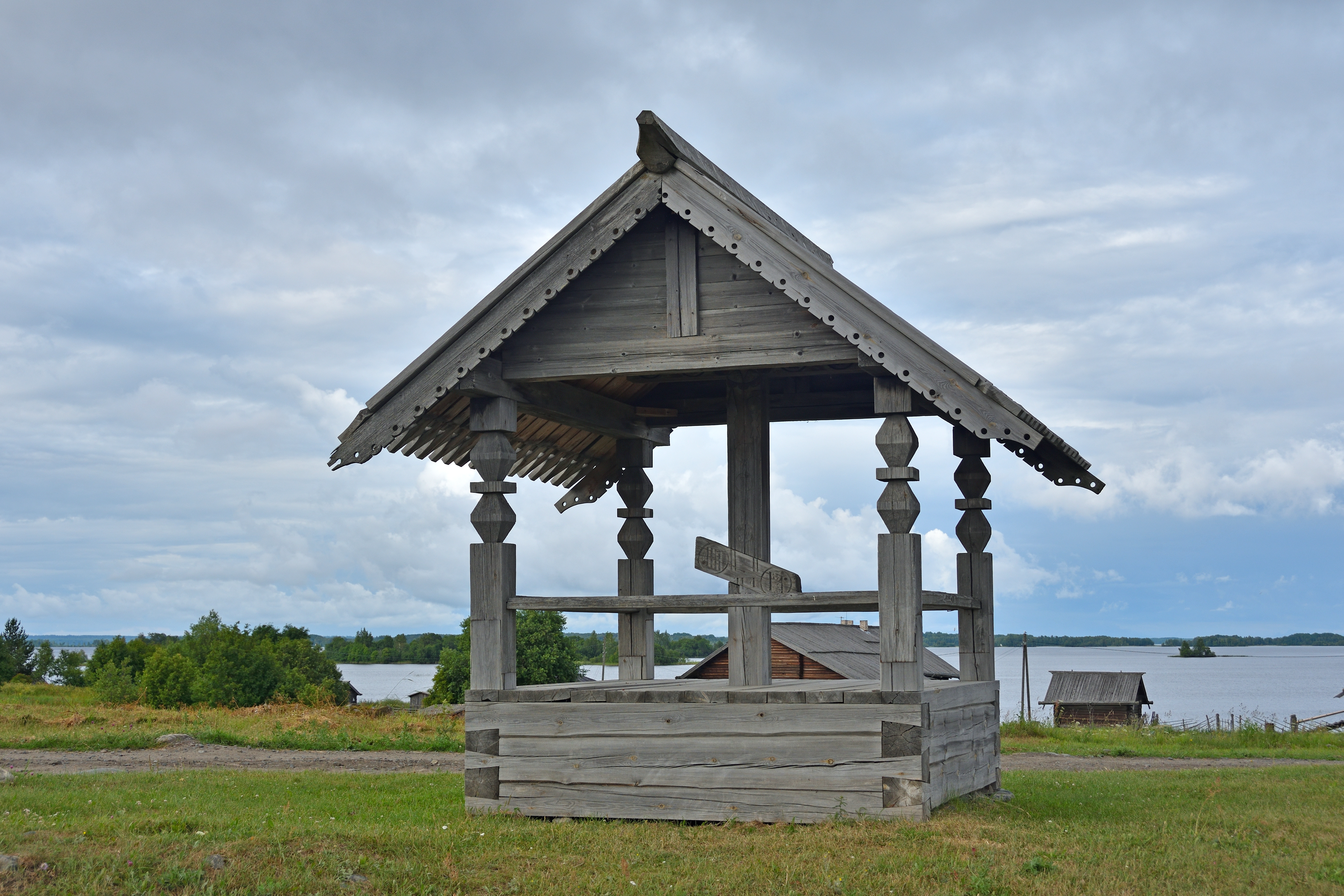 Wayside cross from Khashezero - Yamka village, Kizhi island, Karelia, Russia